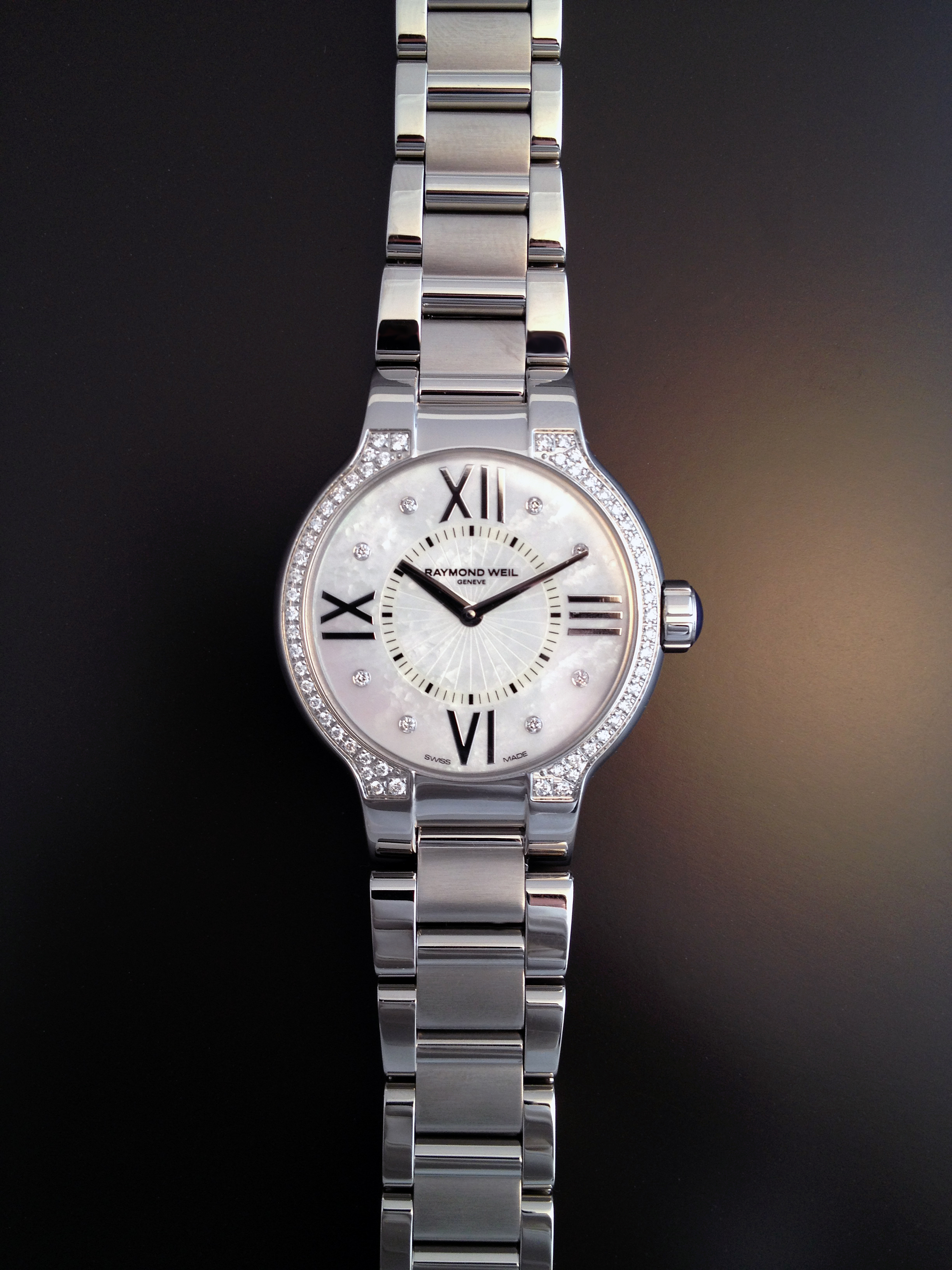 Noemia 5932-sts-00995 - 32 mm - Steel on steel 62 diamonds